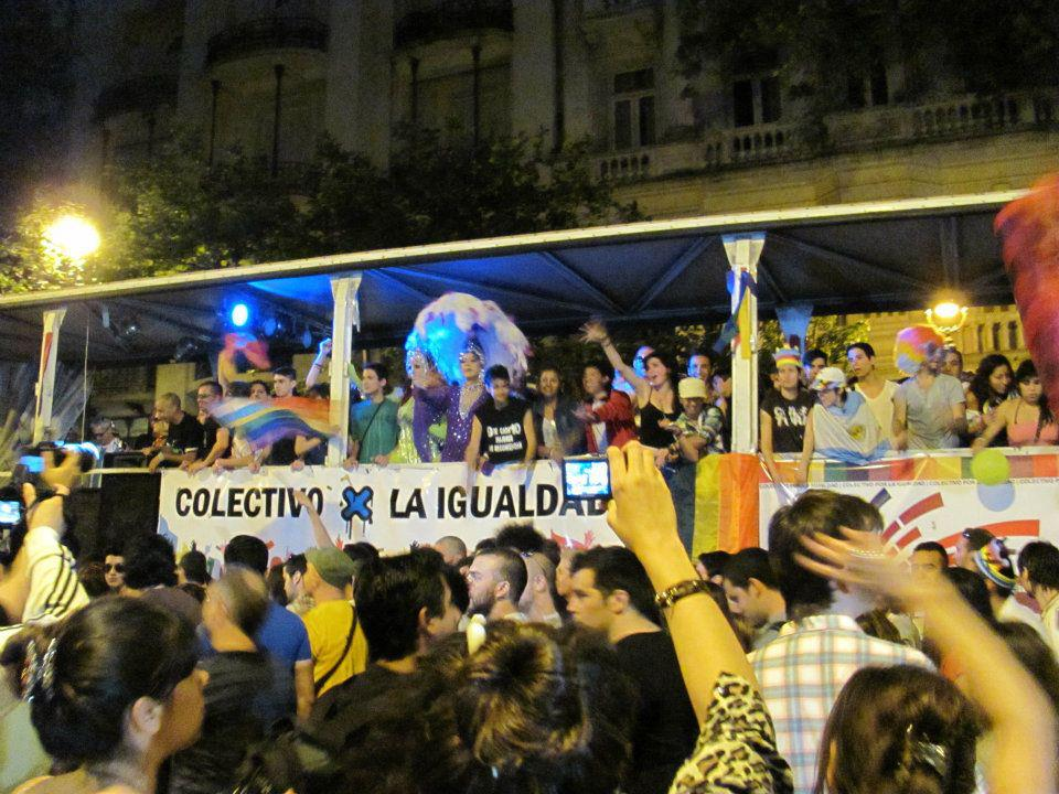 Buenos Aires gay Pride 2011, Colectivo por la Igualdad